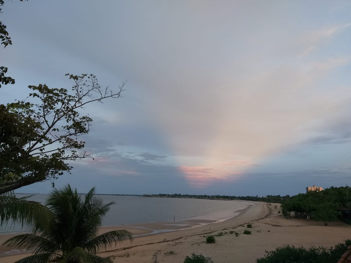 Praia do Farol ("Lighthouse Beach"), Mosqueiro Island, Pará, Brazil